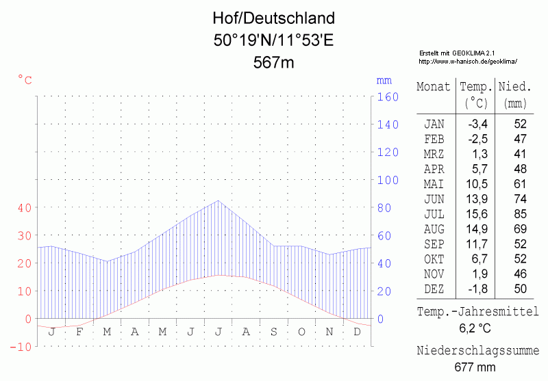 climate chart in the format by Walther and Lieth, metric, °Celsisus and millimeters, made with Geoklima 2.1